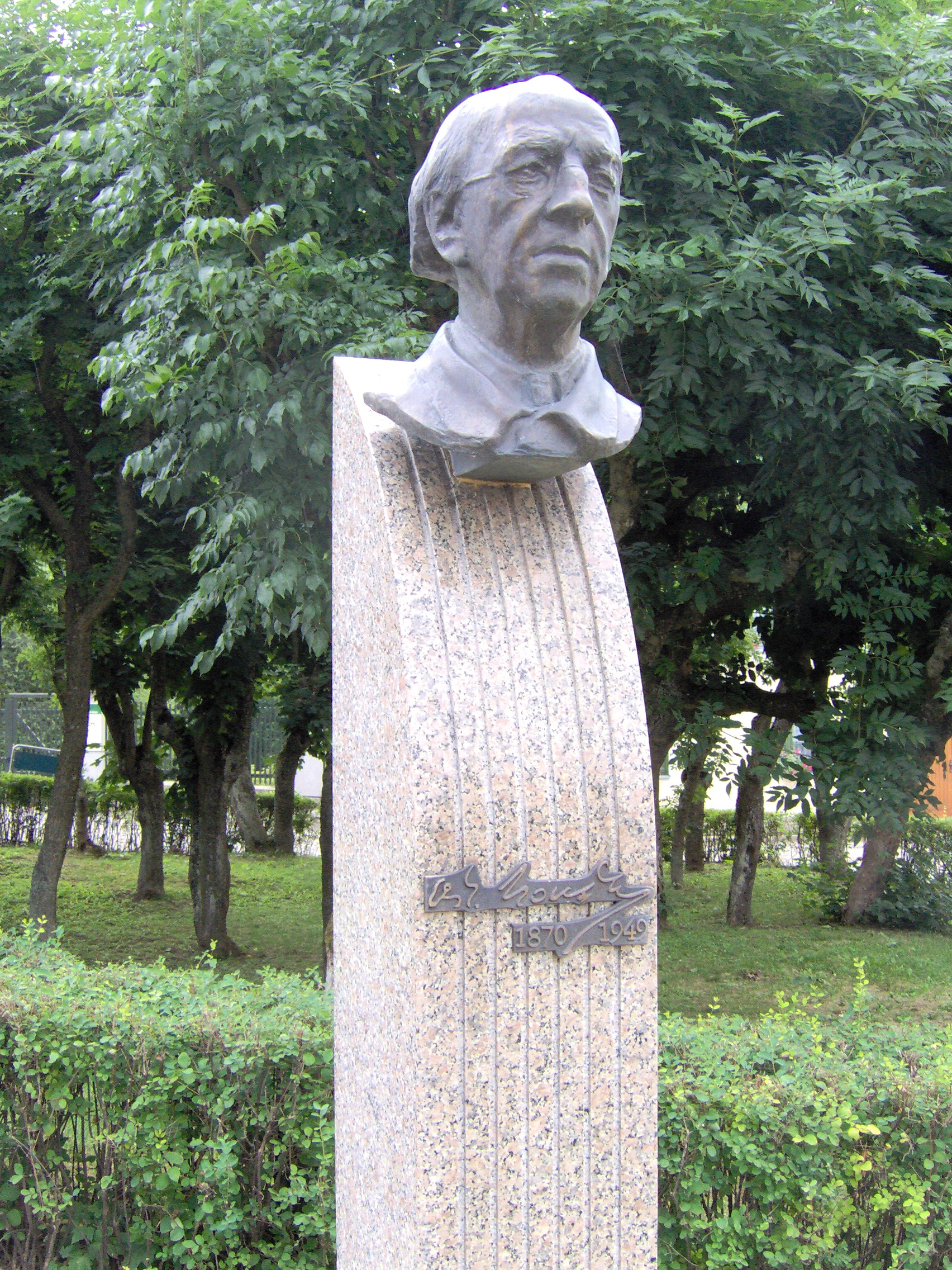 Bust of composer Vítězslav Novák, Kamenice nad Lipou, Pelhřimov District, Czech Republic